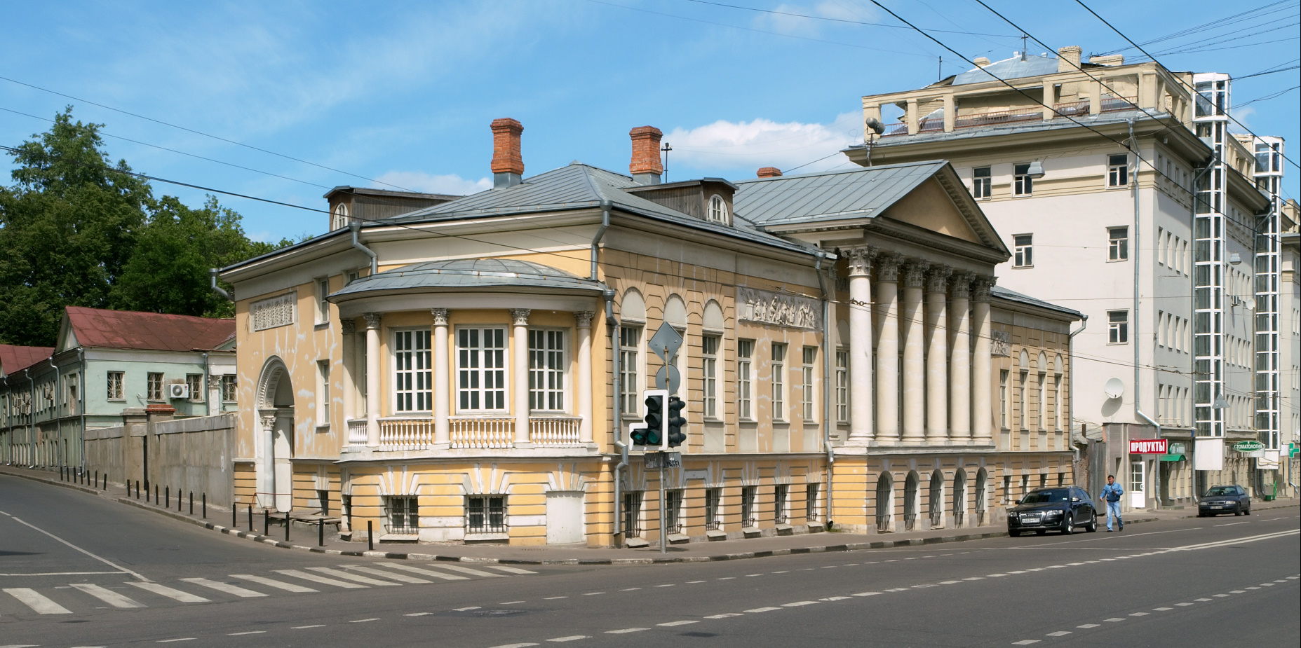 Muravyov-Apostol mansion in Basmannaya Sloboda, Moscow, early 19th century.